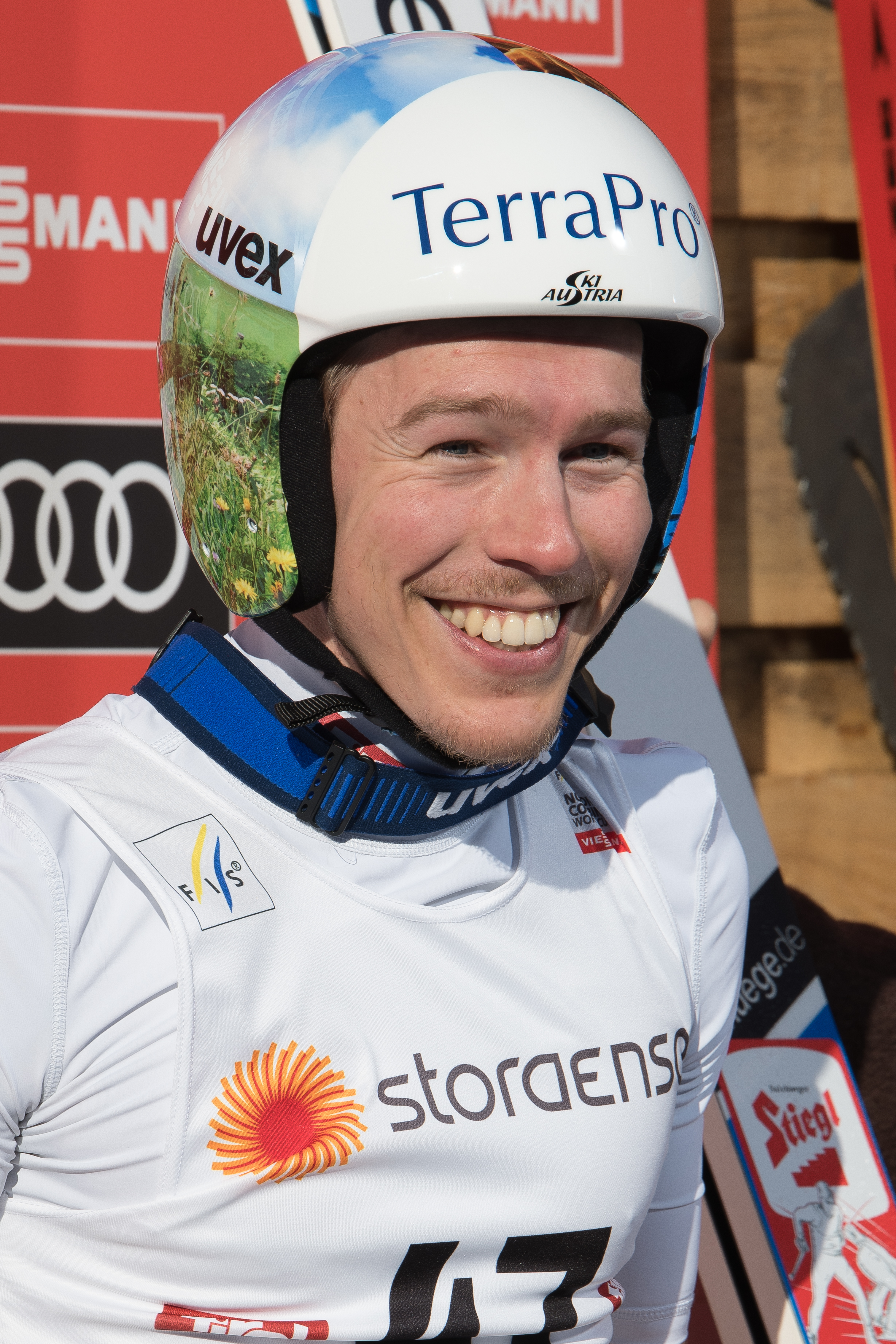 Seefeld-Triple 2018, second day January 27th. Picture shows Franz Josef Rehrl